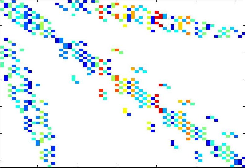 Hessian matrix with columns coloured so that same colour columns may be merged together